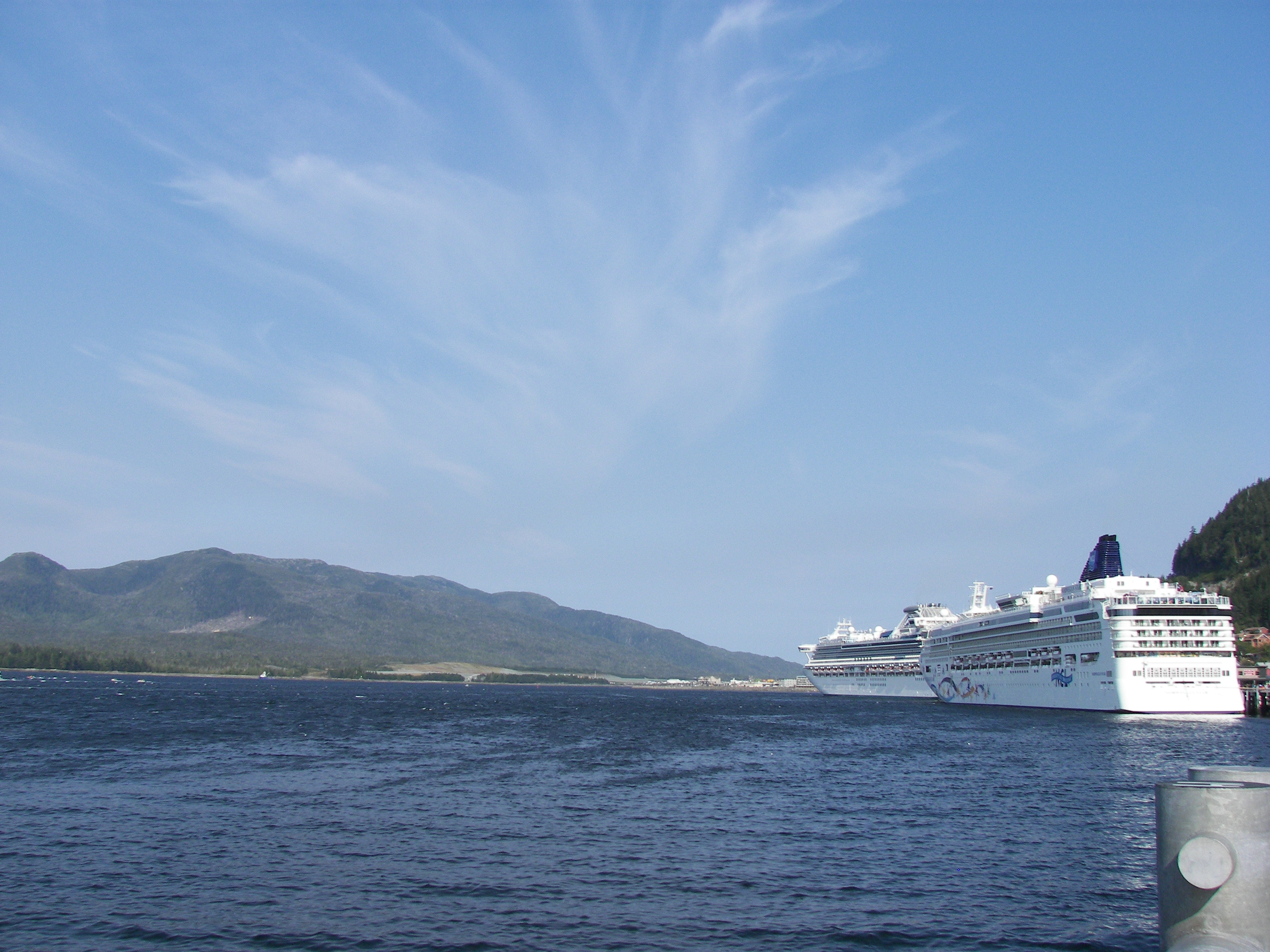 Tongass Narrows with Gravina Island from Ketchikan, Alaska. The Norwegian Star is docked to the right.